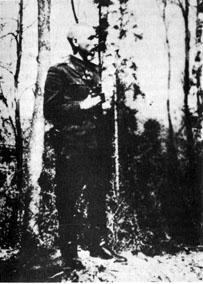 Wołodymyr Szczyhelskyj "Burlak"